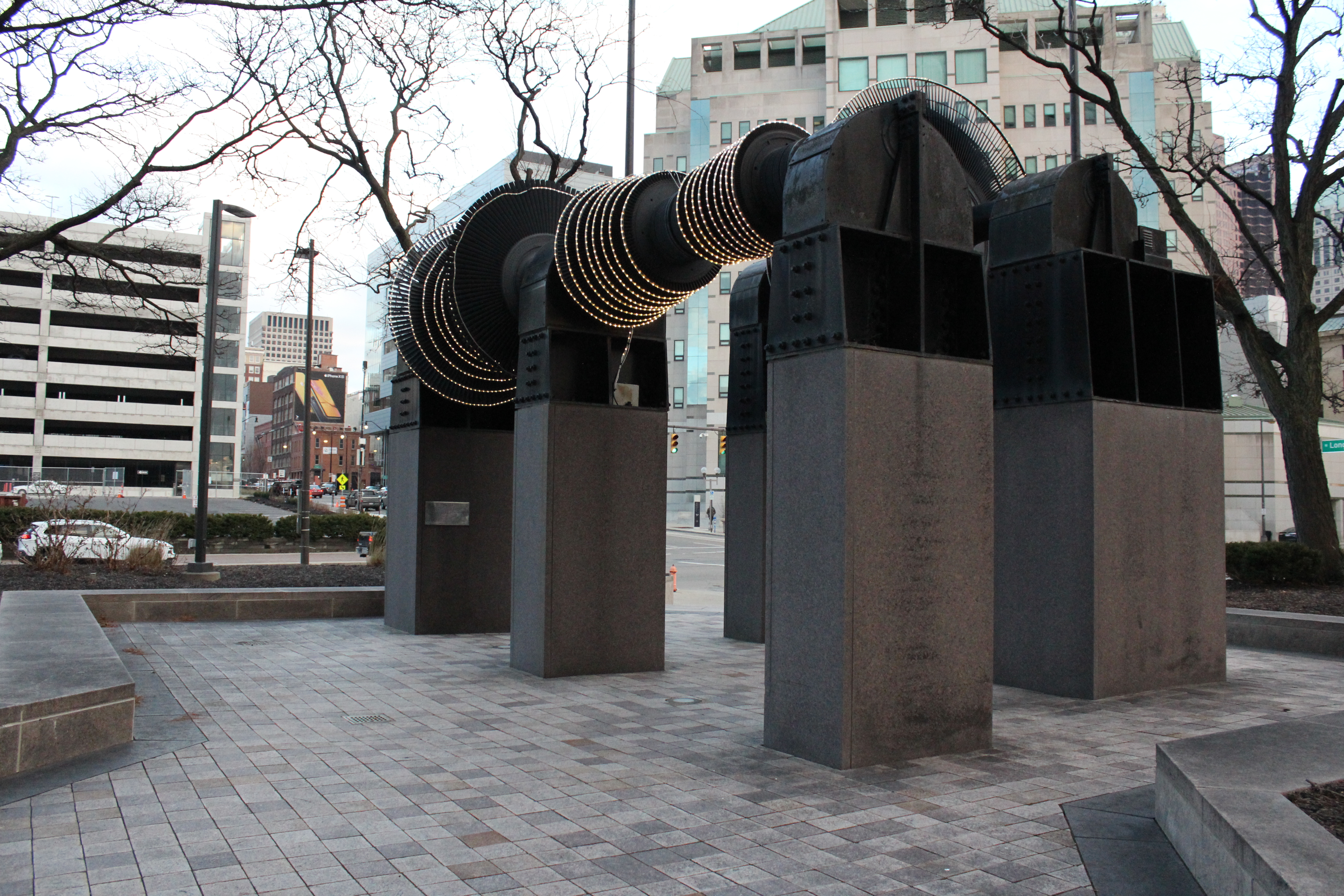 Two sculptures created by George Greenamyer stand in the courtyard outside of AEP Headquarters in Columbus, Ohio. In the foreground is Philo Unit 6's turbine and to the right is Twin Branch Unit 4's turbine.